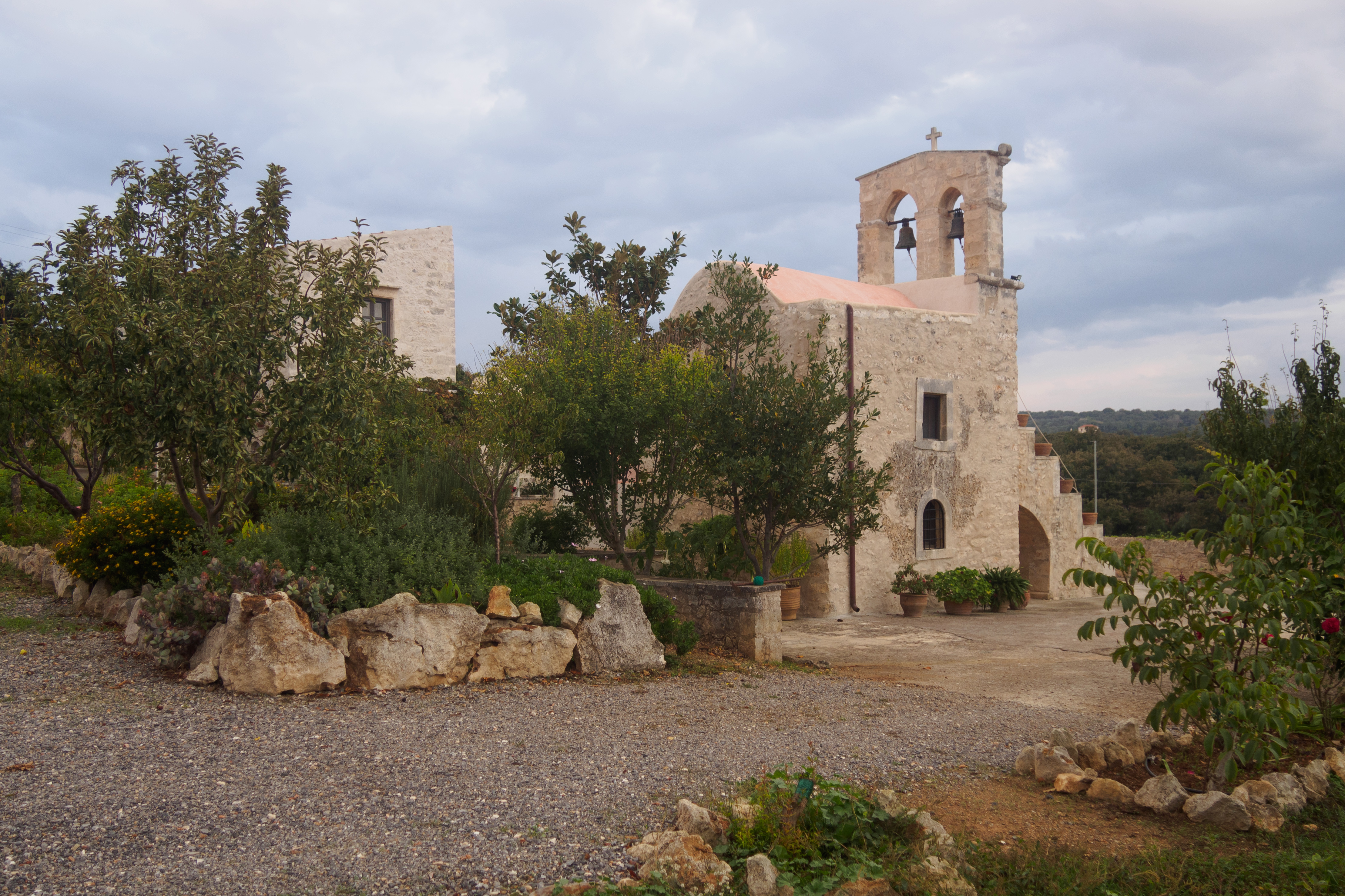 The monastery of Saint Peter and Paul at Gallos, Rethymno.